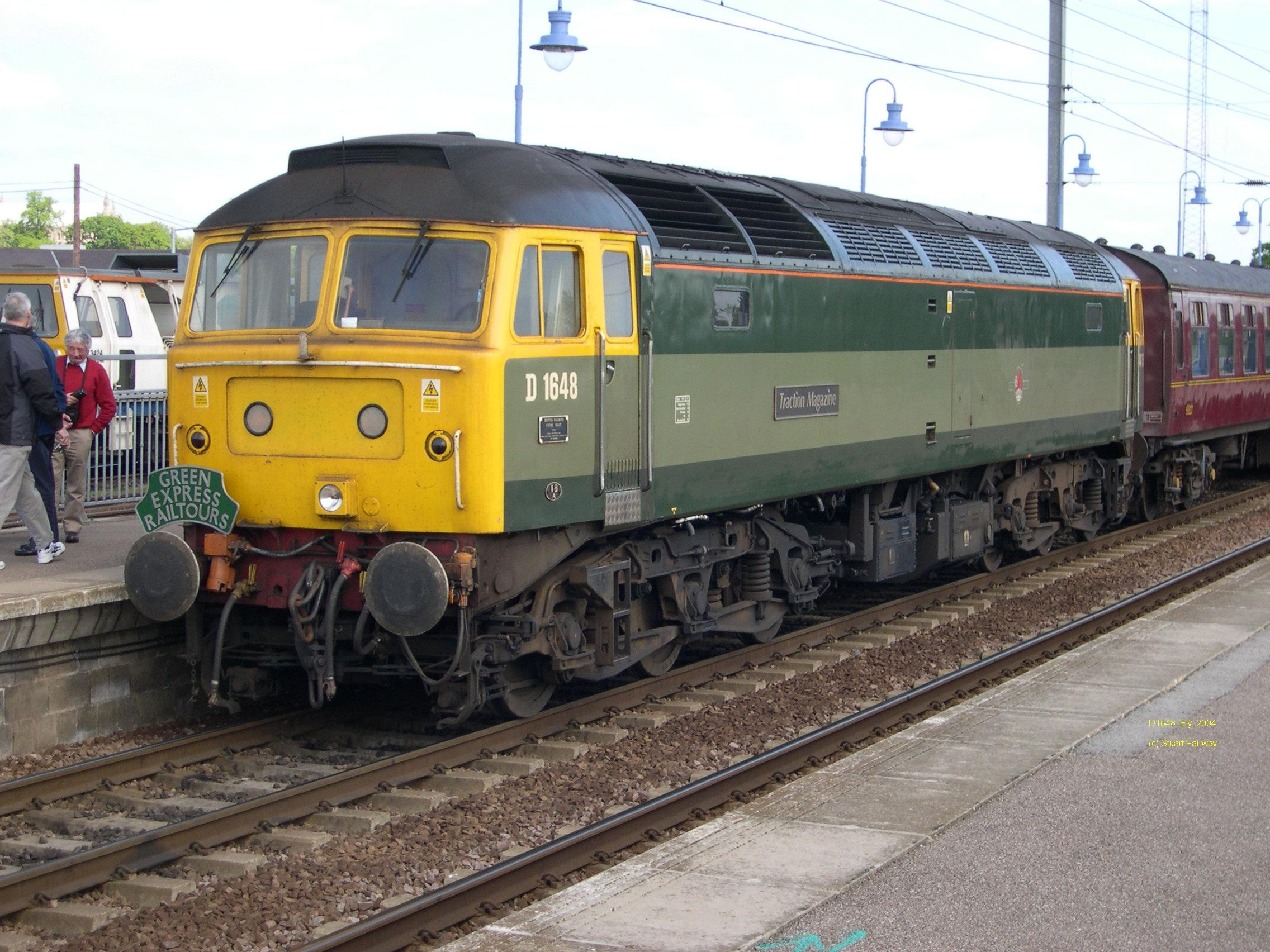 47851 'Traction Magazine' stands at Ely. Owned and operated by West Coast Railway Company, and seen here on a Charter Train in 2004.